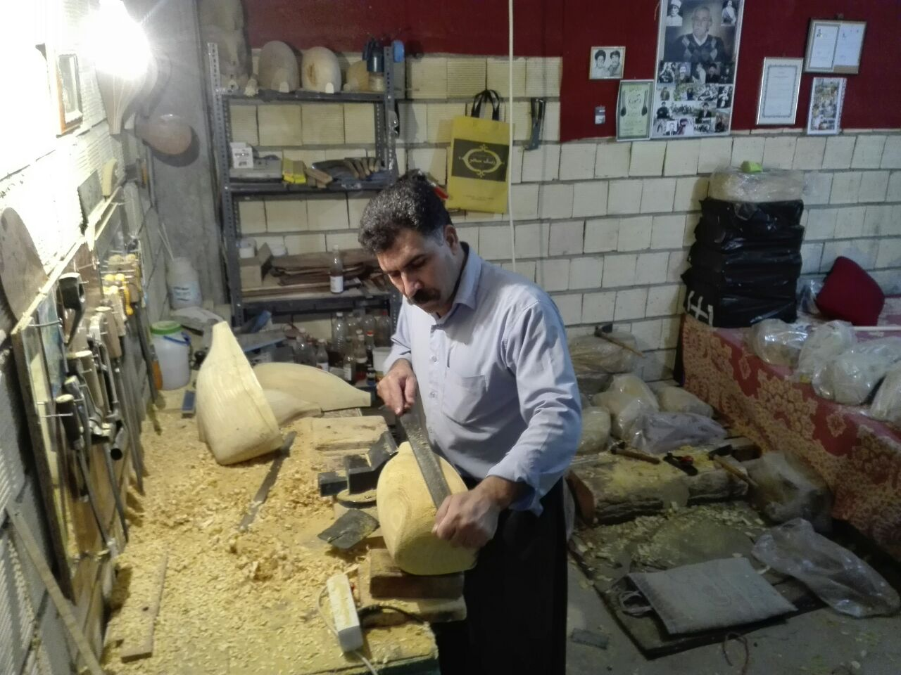 Thanks 55